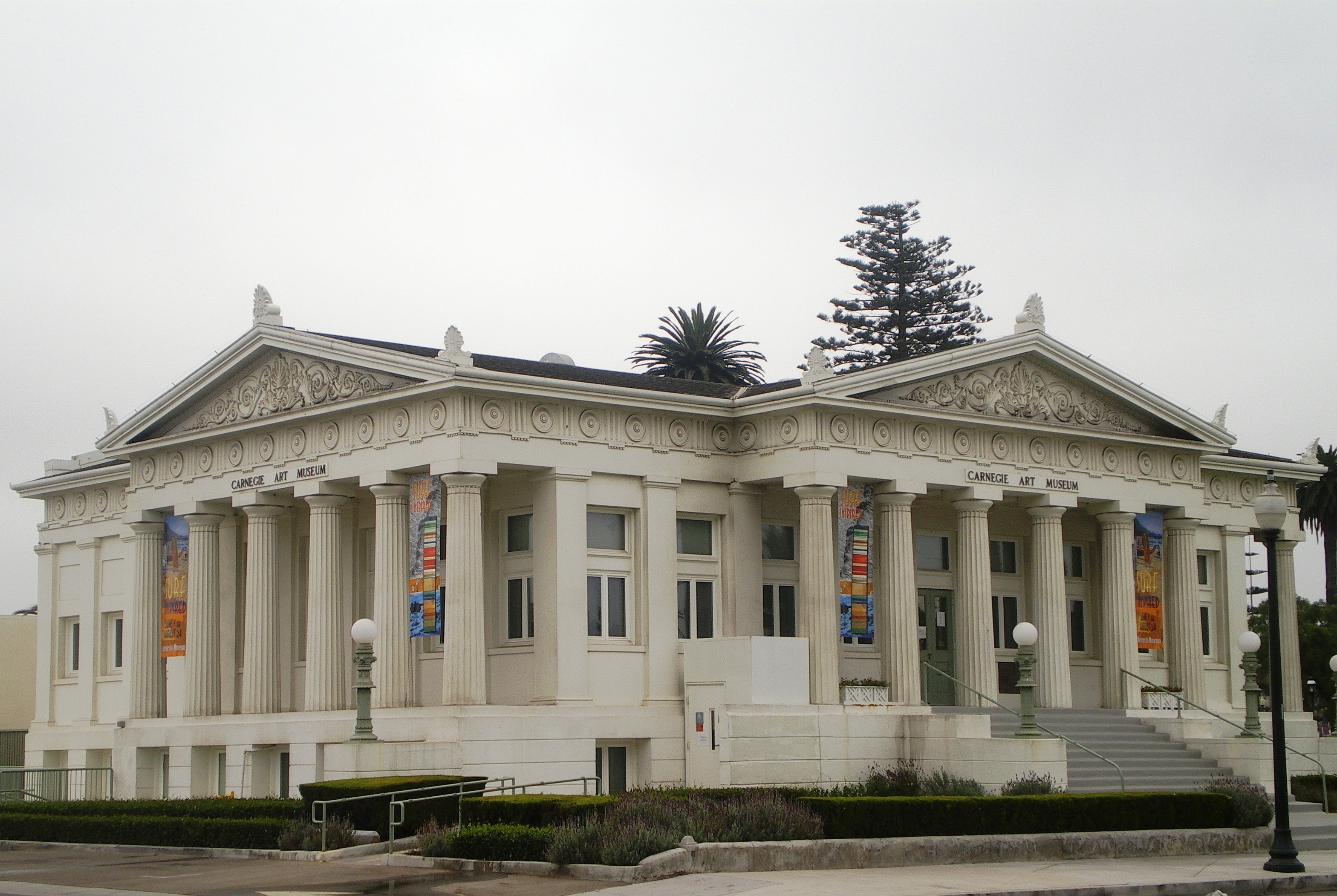 Carnegie Art Museum, 424 S. C St., Oxnard, California